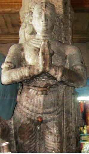 Queen Mangammal of Madurai Nayak Dynasty